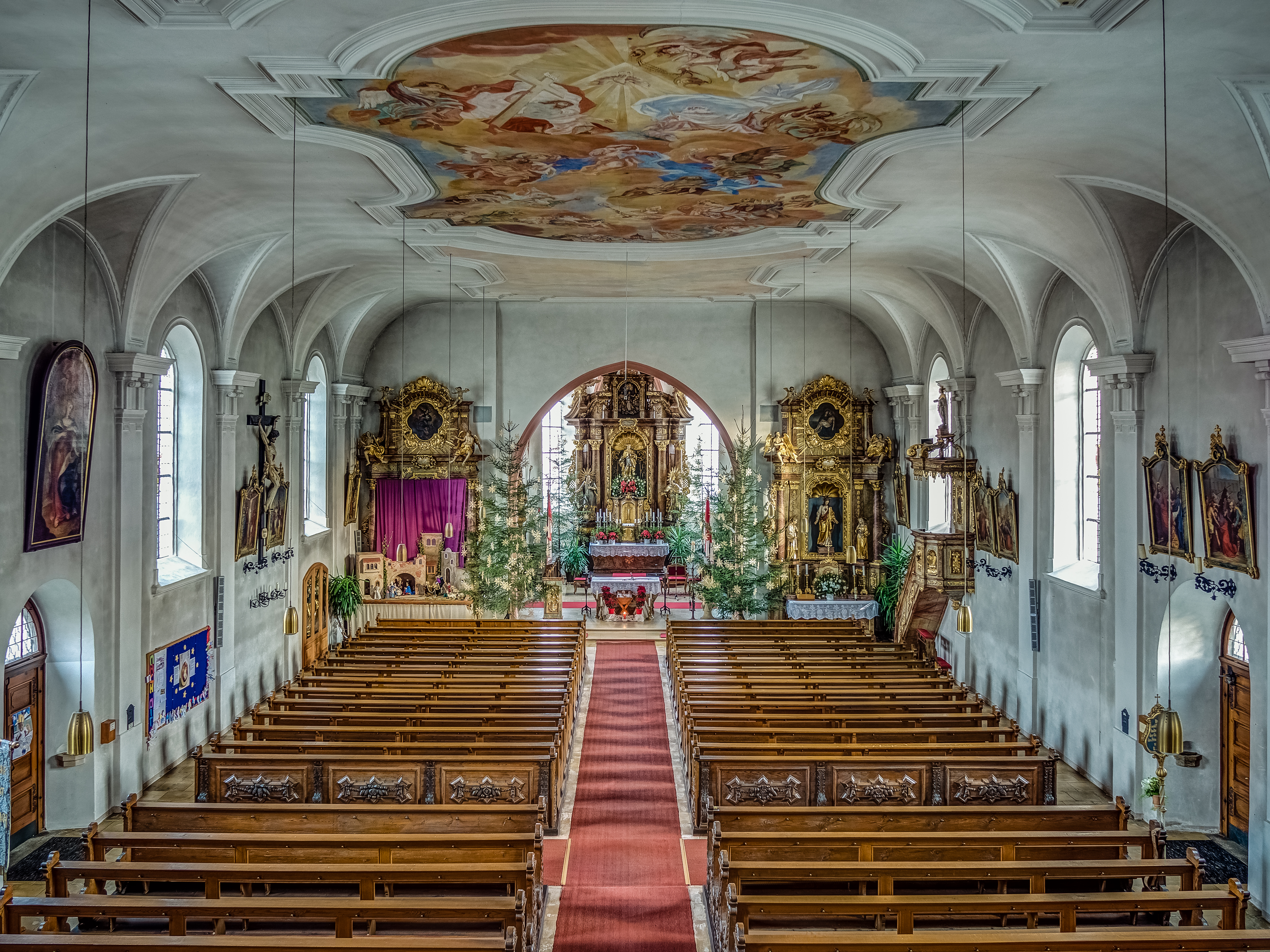 parish church in Burgebrach, Germany, Bavaria, Upper Franconia